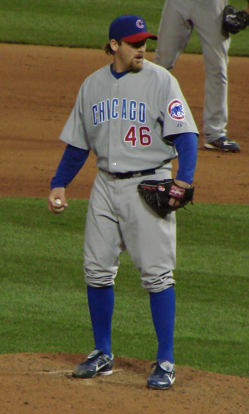 Ryan Dempster pitching for the Chicago Cubs. 19:50, 14 July 2007 . . Mshake3 . . 804×1334 (440 KB)